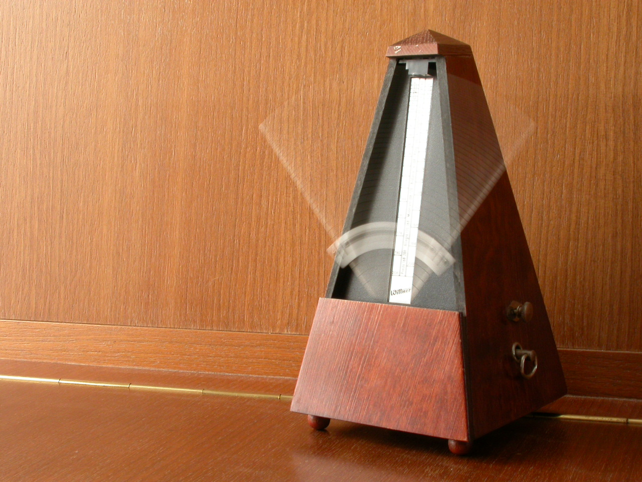 Wittner over Petrof 115, polished walnut.